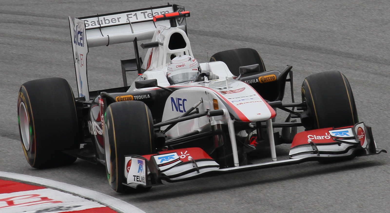 Formula One 2011 Rd.2 Malaysian GP: Kamui Kobayashi (Sauber) during the qualify session on Saturday.